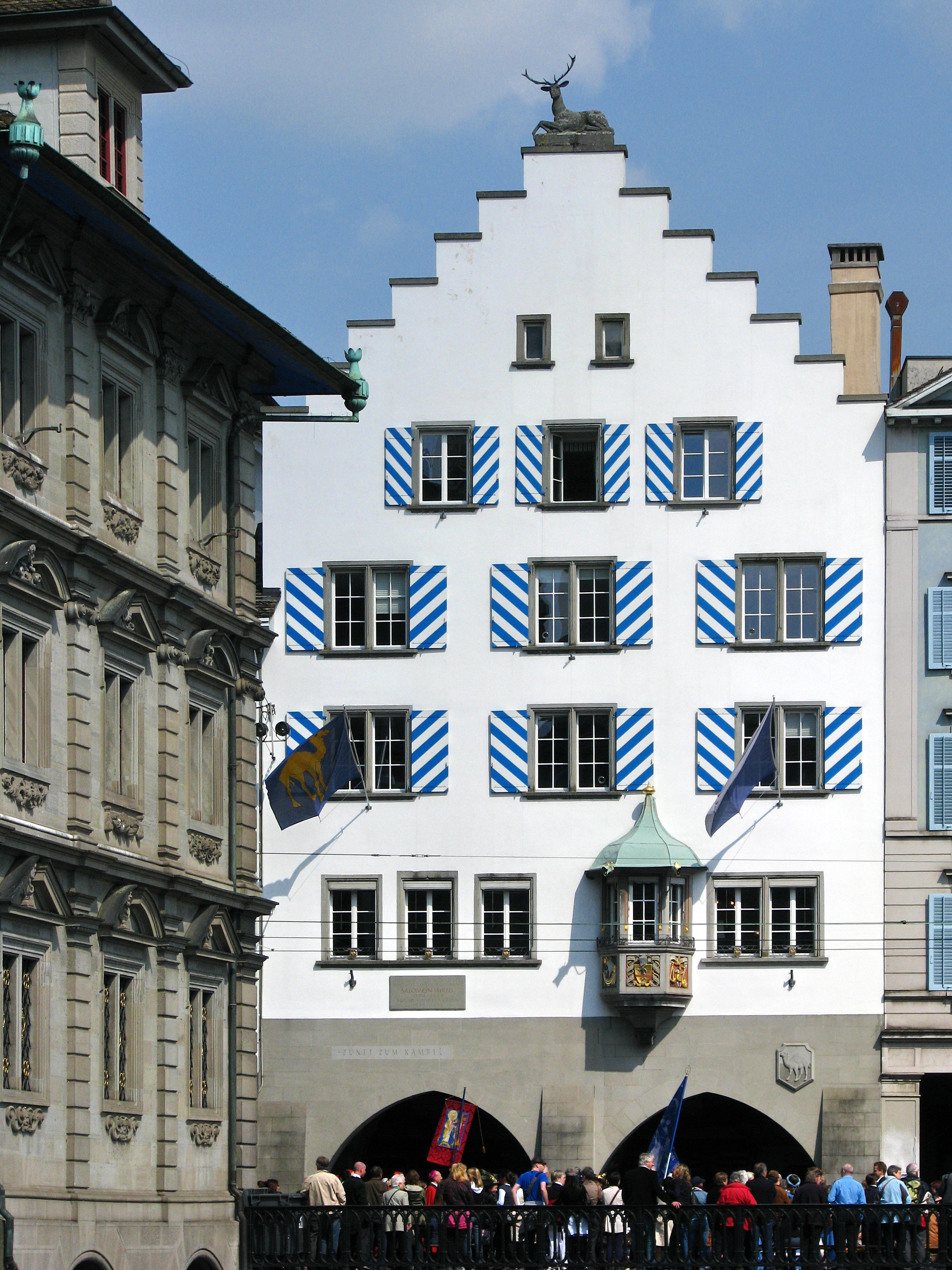 Zürich-Limmatquai : Guild house «zur Haue» of the Zunft zum Kämbel decorated for Sechseläuten in April 2010, Rathaus to the left side.